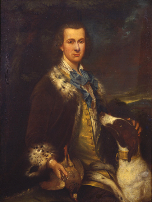 Governor of New York Thomas Dongan whose Charter of Liberties, granted American "co-equality" with London, based on the Irish grievance in Ireland's Parliament.